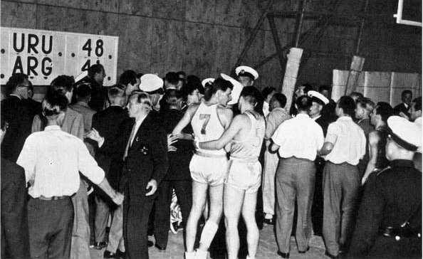 Uruguay-Argentine basketball match at the 1952 Olympic Games